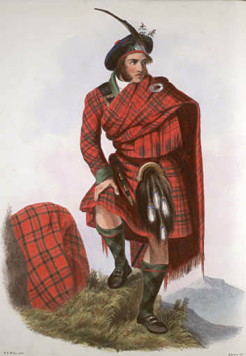 "Drummond". A plate illustrated by R. R. McIan, from James Logan's The Clans of the Scottish Highlands, published in 1845.